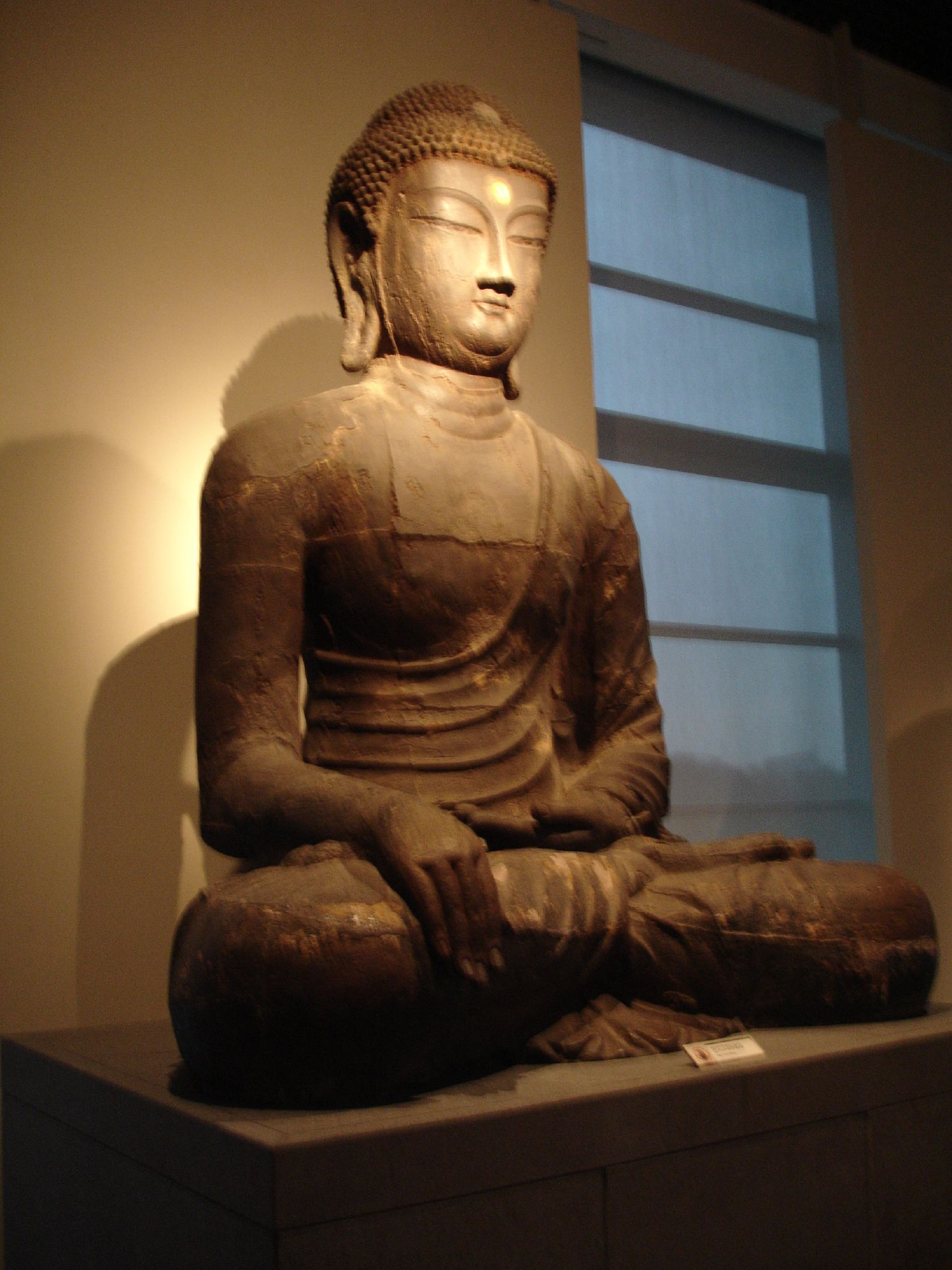 Bronze Buddha at National Museum of Korea from the Unified SIlla period.